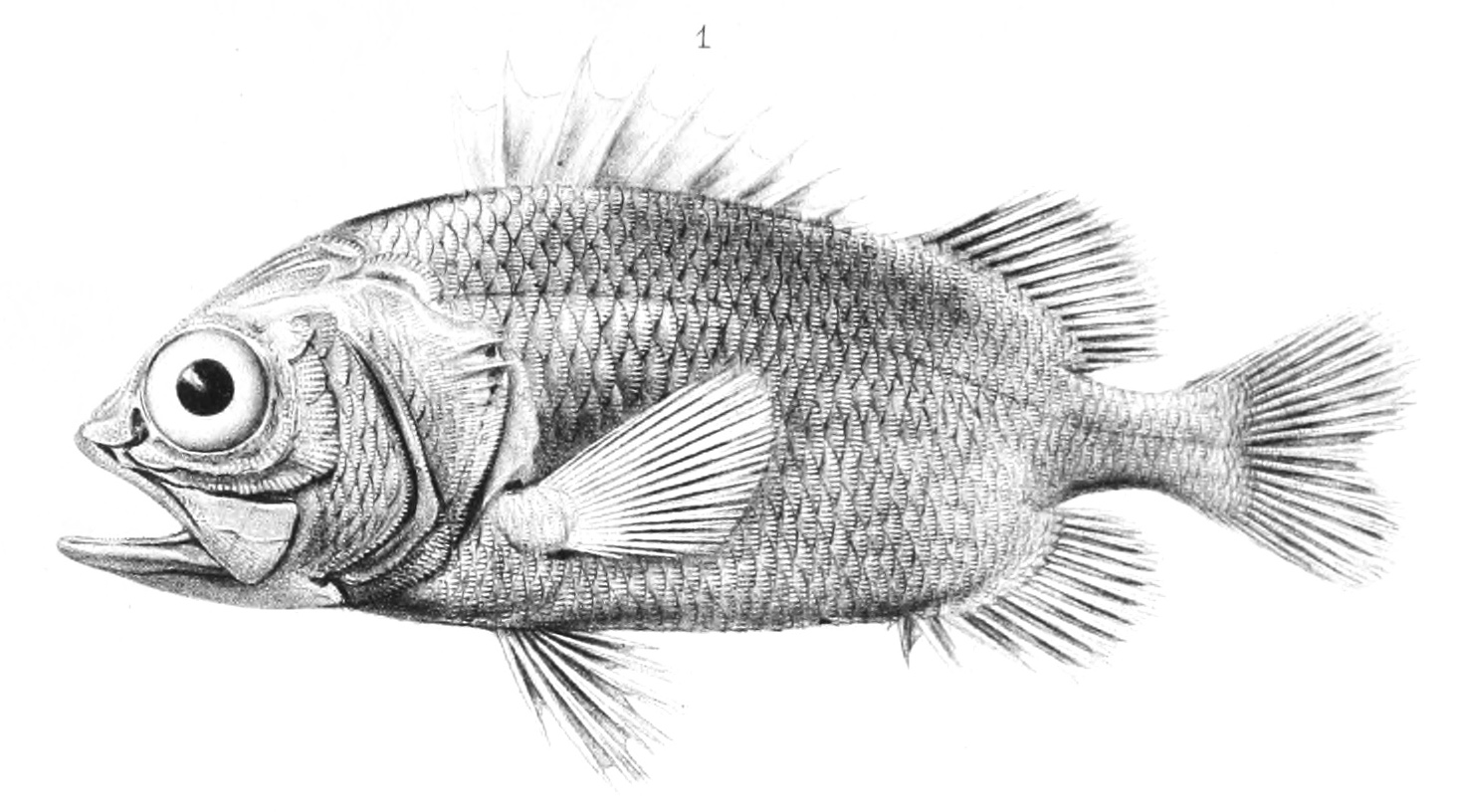 Holotrachys lima = Plectrypops lima